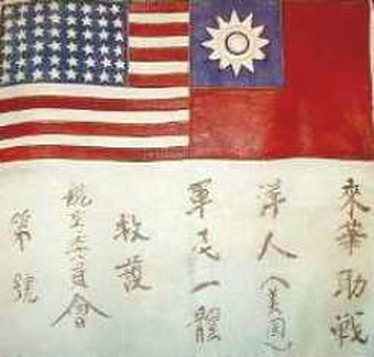 "This foreign person has come to China to help in the war effort. Soldiers and civilians, one and all, should rescue, protect, and provide him with medical care."